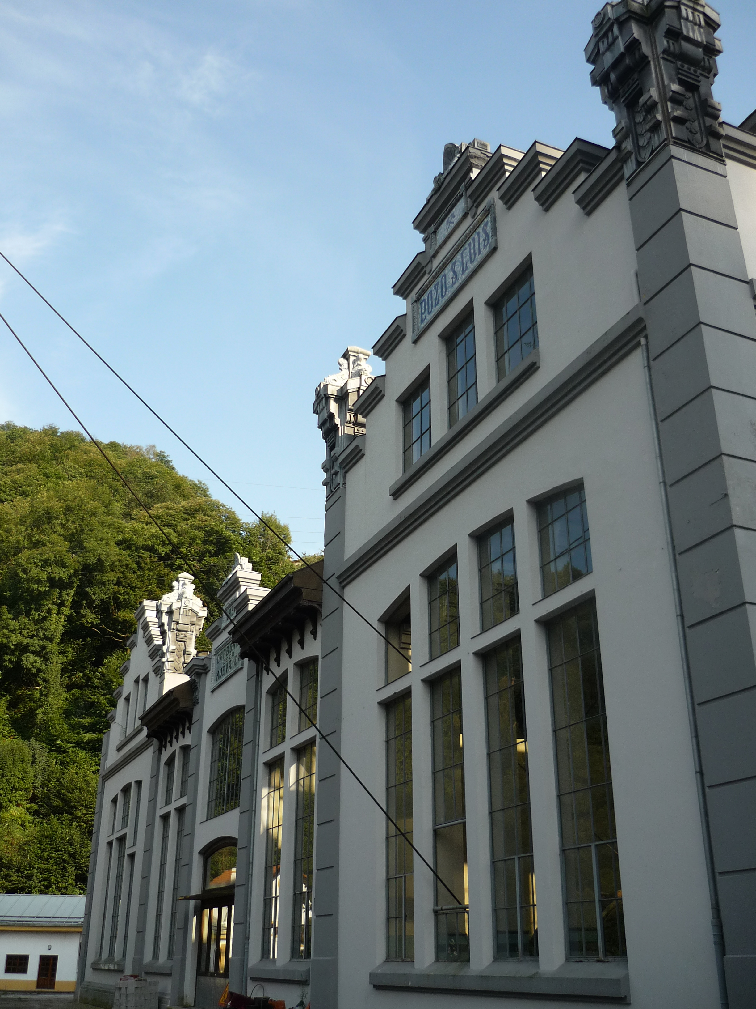 Mining Museum Valle de Samuño, Langreo, Spain